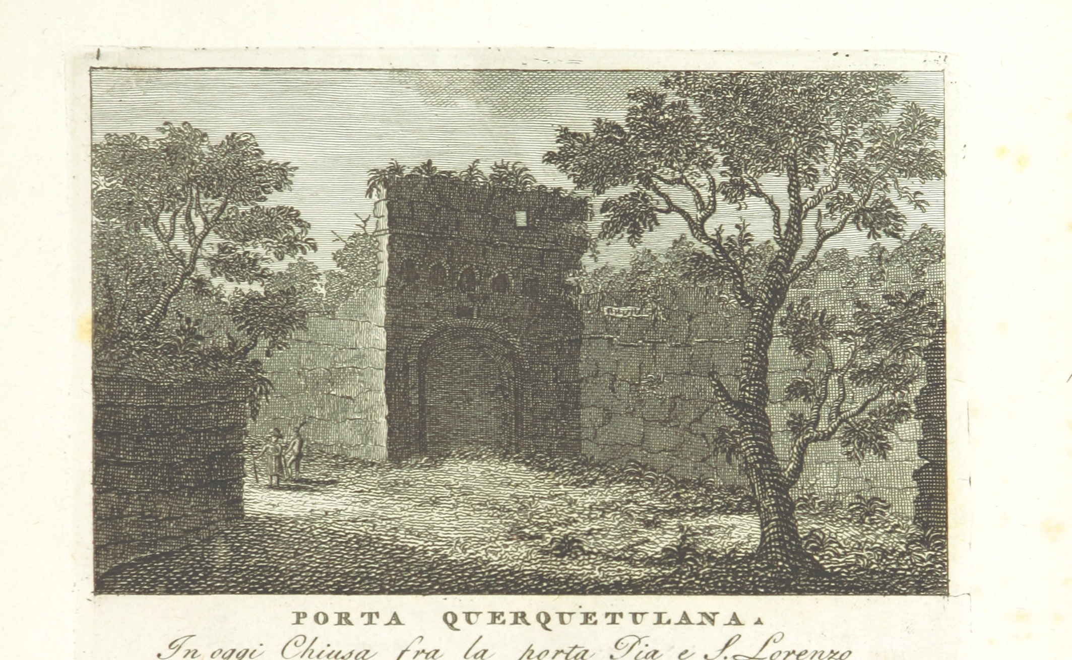 Title: "Vedute antiche e moderne le più interessanti della città di Roma, incise da vari autori, in numero 100. (Explication ... rédigée ... par E. Piale.)", "Appendix. Topography" Contributor: PIALE, Stefano. Author: Rome (Italy) Shelfmark: "British Library HMNTS 10131.h.1." Page: 89 Place of Publishing: Rome Date of Publishing: 1820 Publisher: V. Monaldini Issuance: monographic Identifier: 003147404